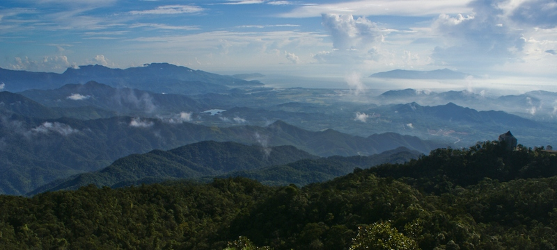 View from historic post office location